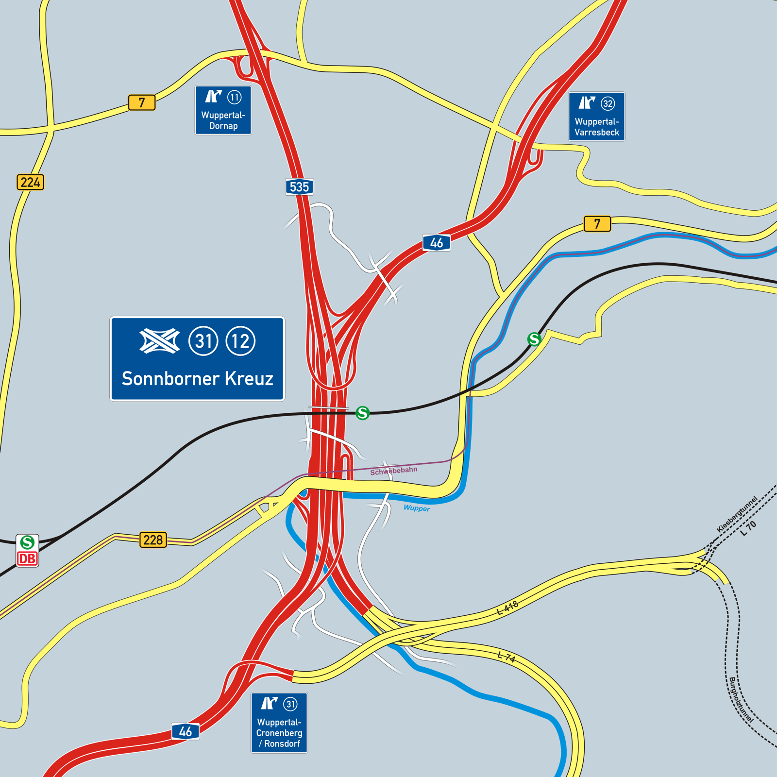 Schematic drawing of the motorway crossing Autobahnkreuz Sonnborn in Wuppertal, Germany.